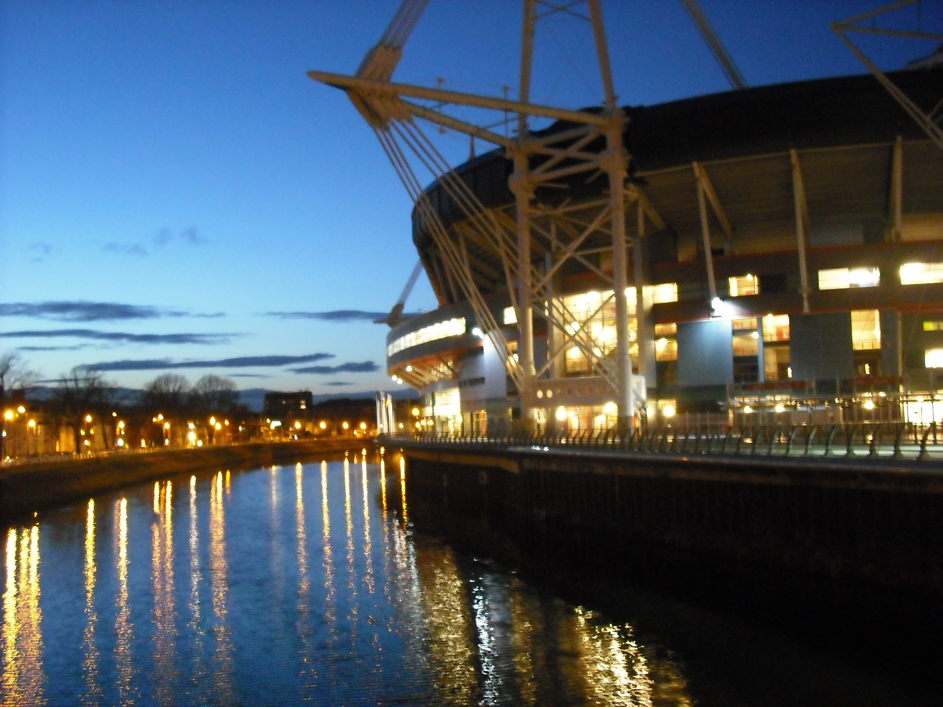 Millennium Stadium at dusk, Cardiff, Wales.